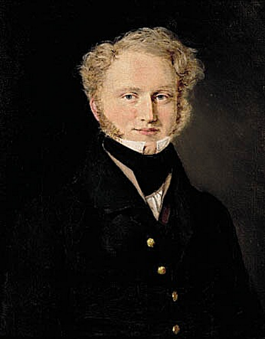 Daniel Otto Isaachsen (1806-1891) of Christianssand, Norway married Johanne Henriette Hegermann-Lindencrone (1812-1836) of Denmark. They had two children before her death. The lot consisted of portraits of both of them.